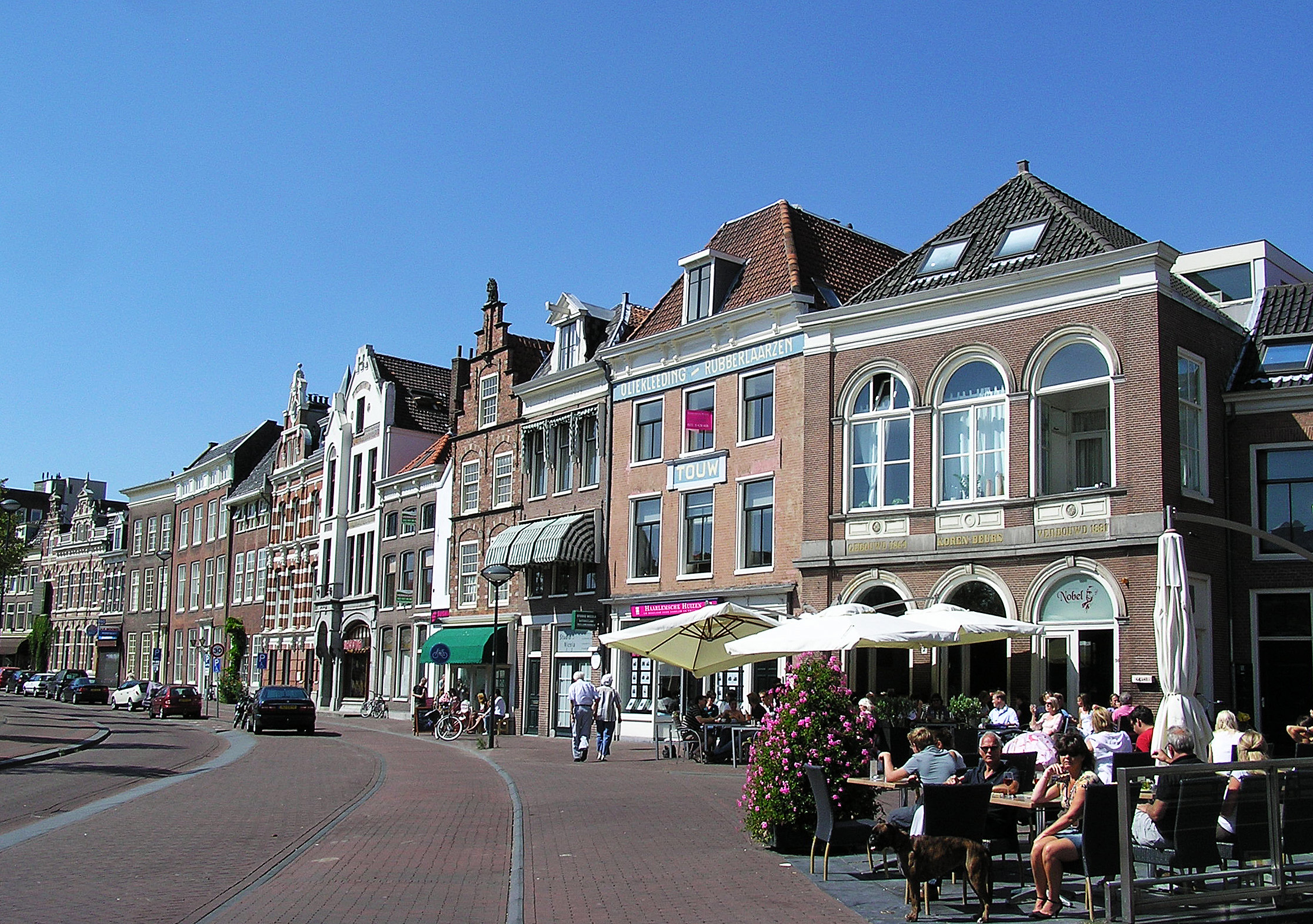 Street Spaarne at the river Spaarne in Haarlem, Netherlands